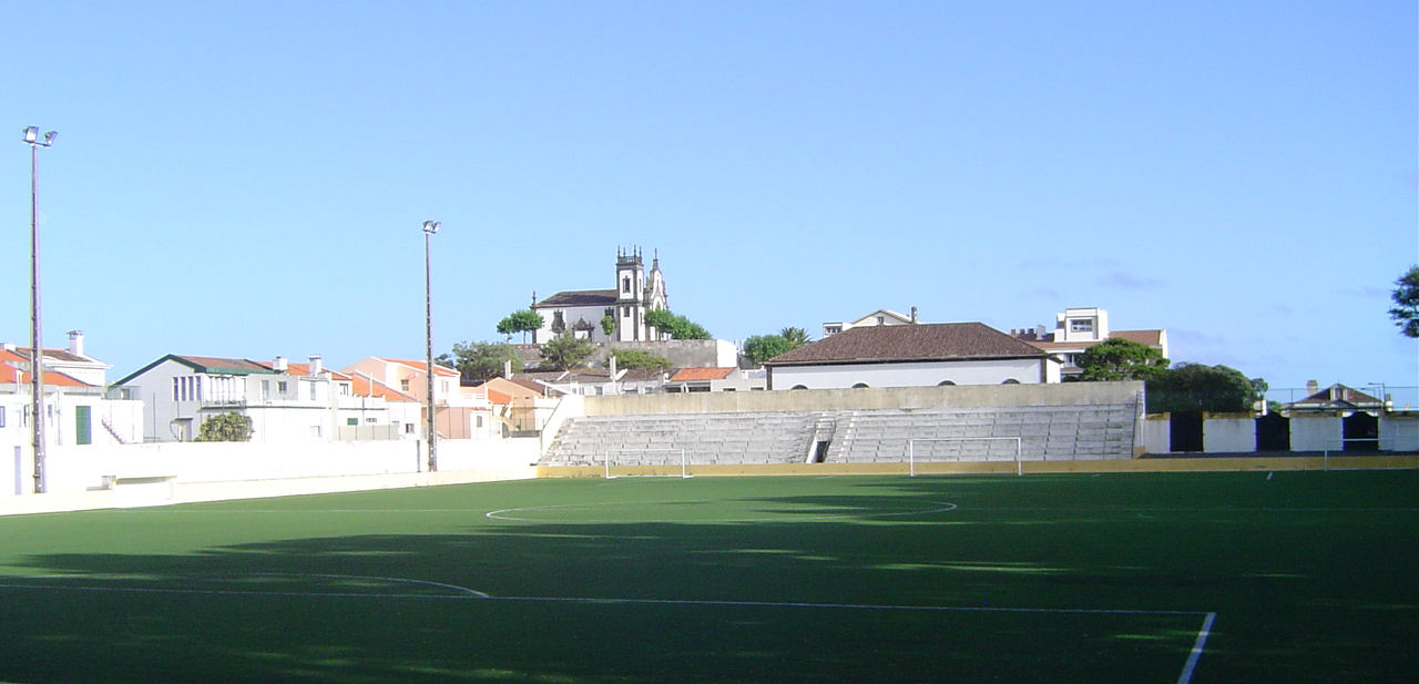 Campo Municipal Jâcome Correia - southern view. The stadium is used by Capelense Sport Club and Clube União Micaelense, Portuguese football clubs based in Ponta Delgada on the island of São Miguel in the Azores.